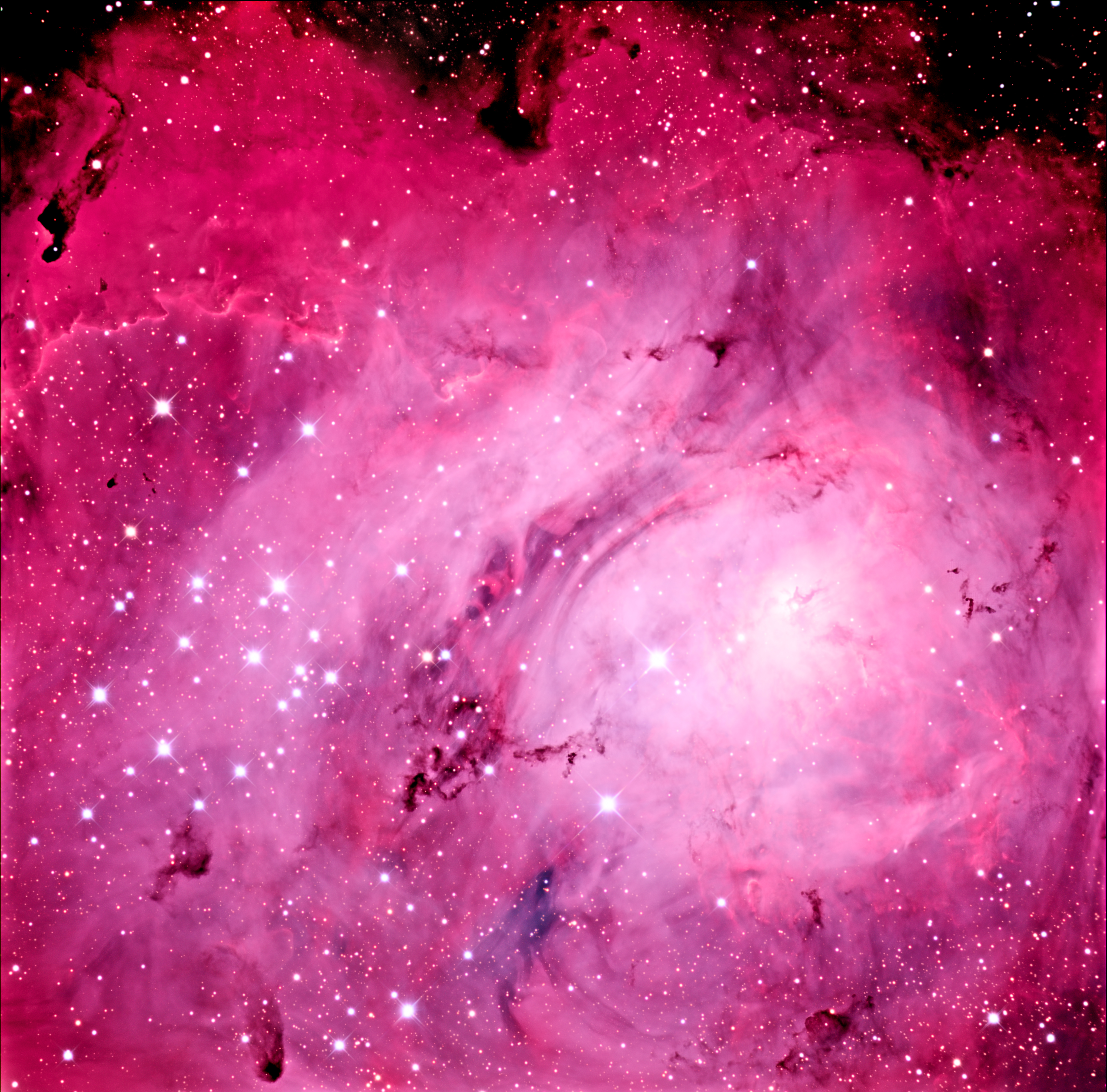 Hourglass Nebula region of Messier 8 (M8) in the 32 inch Schulman telescope on Mt. Lemmon, AZ